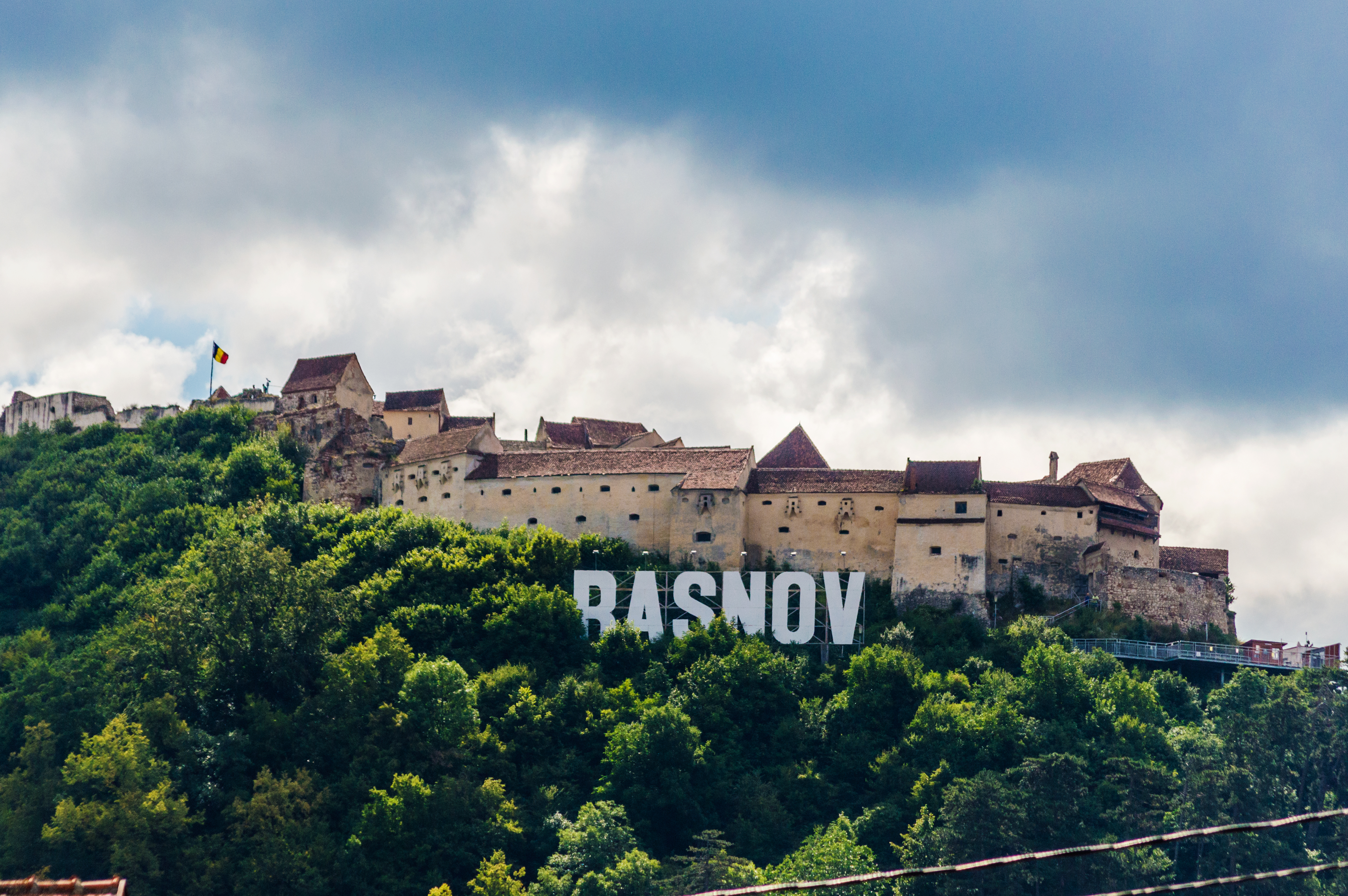 Râșnov Citadel is a medieval fortress, located on a hill near the small town in Transylvania, with the same name.